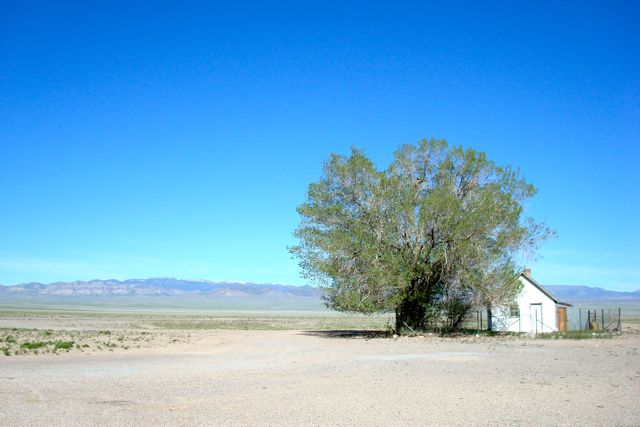 house at pine valley at UT State Route 21